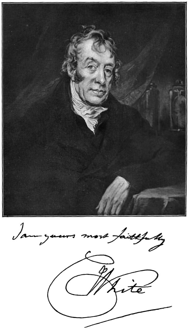 Picture of Charles White, the physician